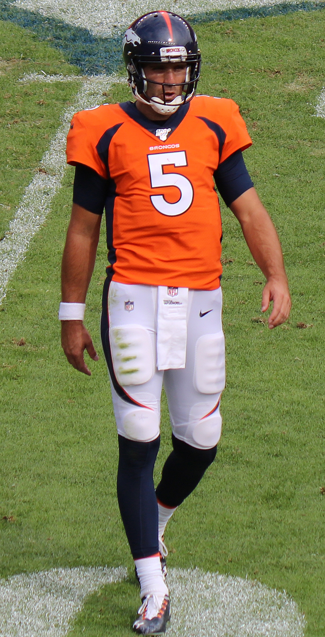 Joe Flacco, a National Football League player.